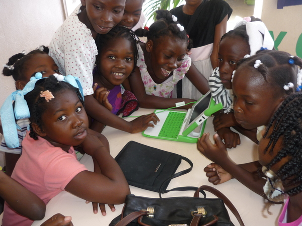 Photos from "République du Chili", a school in Haiti where XOs where deployed in June 2008.